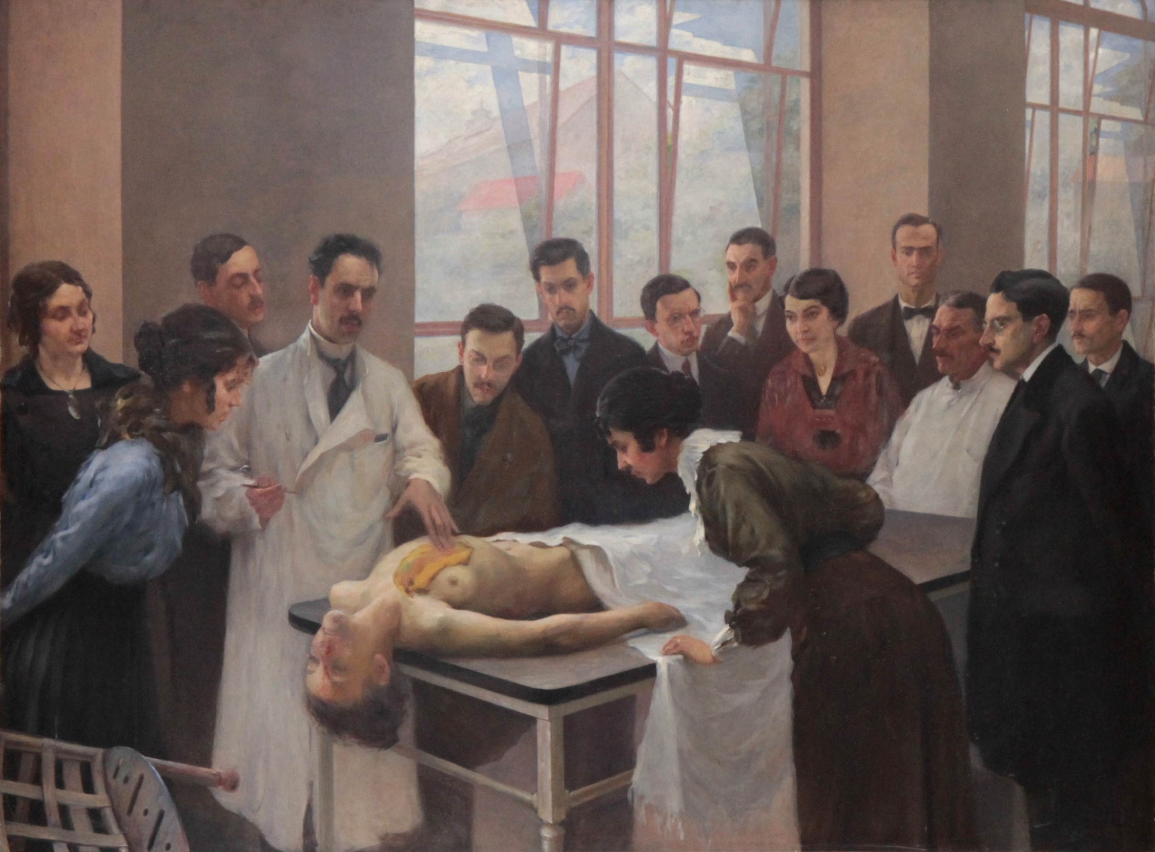 "The Master" (1914), by Carlos Bonvalot (1893-1934). The painting depicts an Anatomy lesson taught by Professor Henrique de Vilhena, at the Faculty of Medicine of the University of Lisbon.